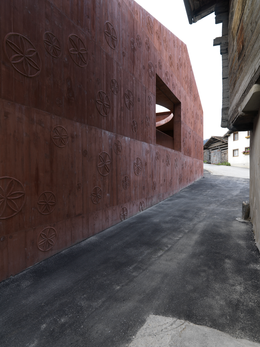 Atelier Bardill, Scharans, Switzerland. Architect: Valerio Olgiati, 2007